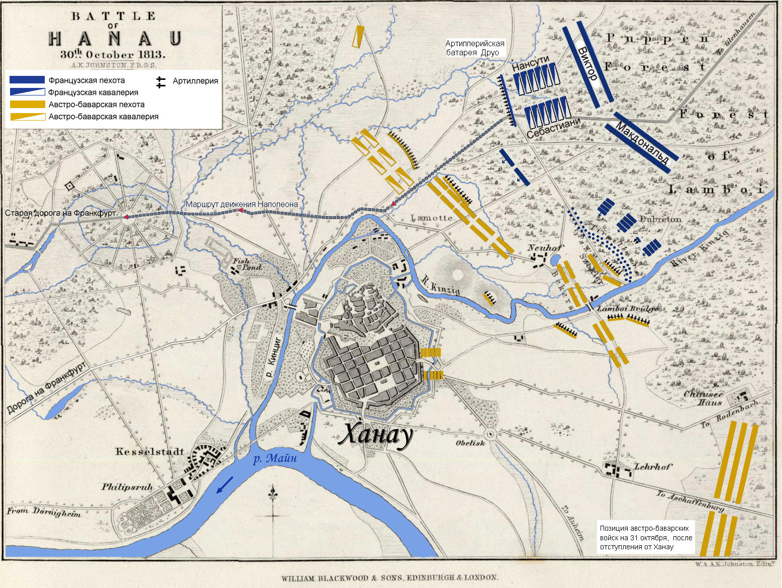 Battle of Hanau map. Battle plan is edited from original by including information from other reliable sources. Inscriptions are made in russian.